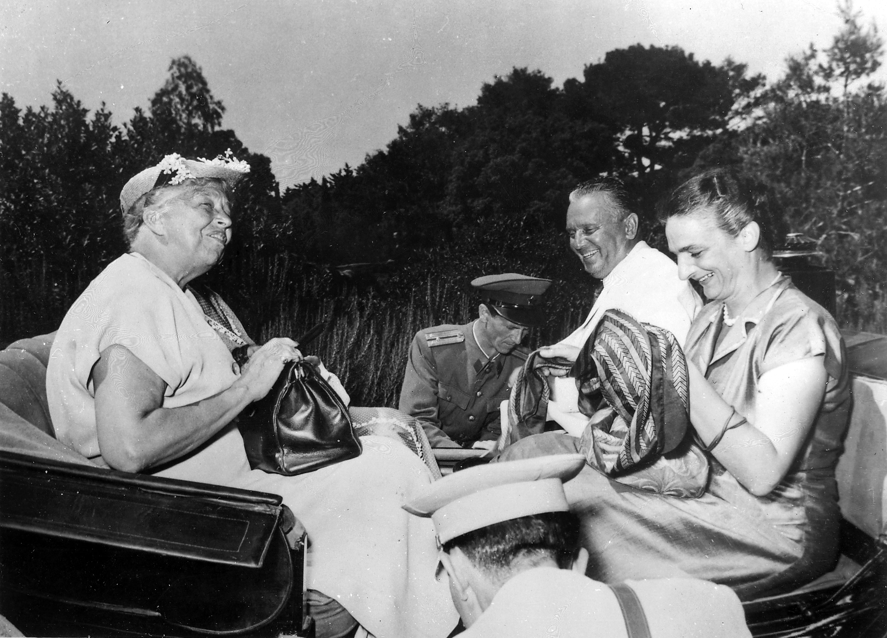 Eleanor Roosevelt and Josip Tito in Brioni, Yugoslavia, July 16, 1953